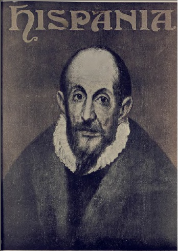 Portada de la Revista nº 71